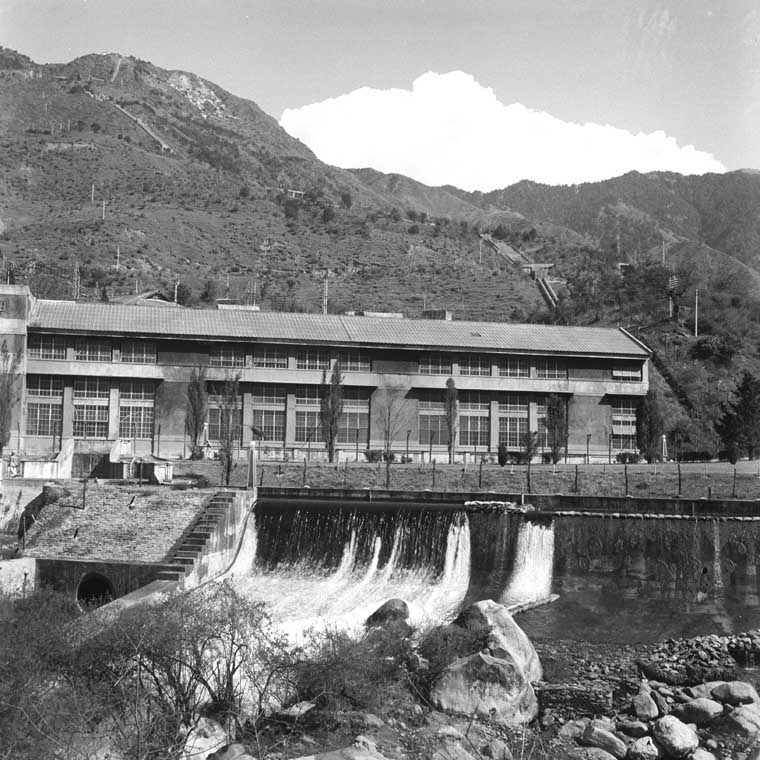 The power house of the Uhl scheme. This is situated at Jogindarnagar, nearly six miles away from the reservoir at Barot